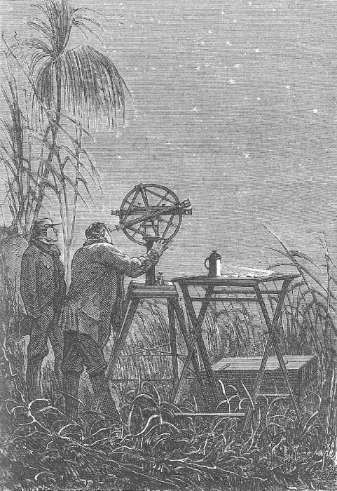 An illustration from Jules Verne's novel "The Adventures of Three Englishmen and Three Russians in South Africa" (1870) drawn by Jules Férat.